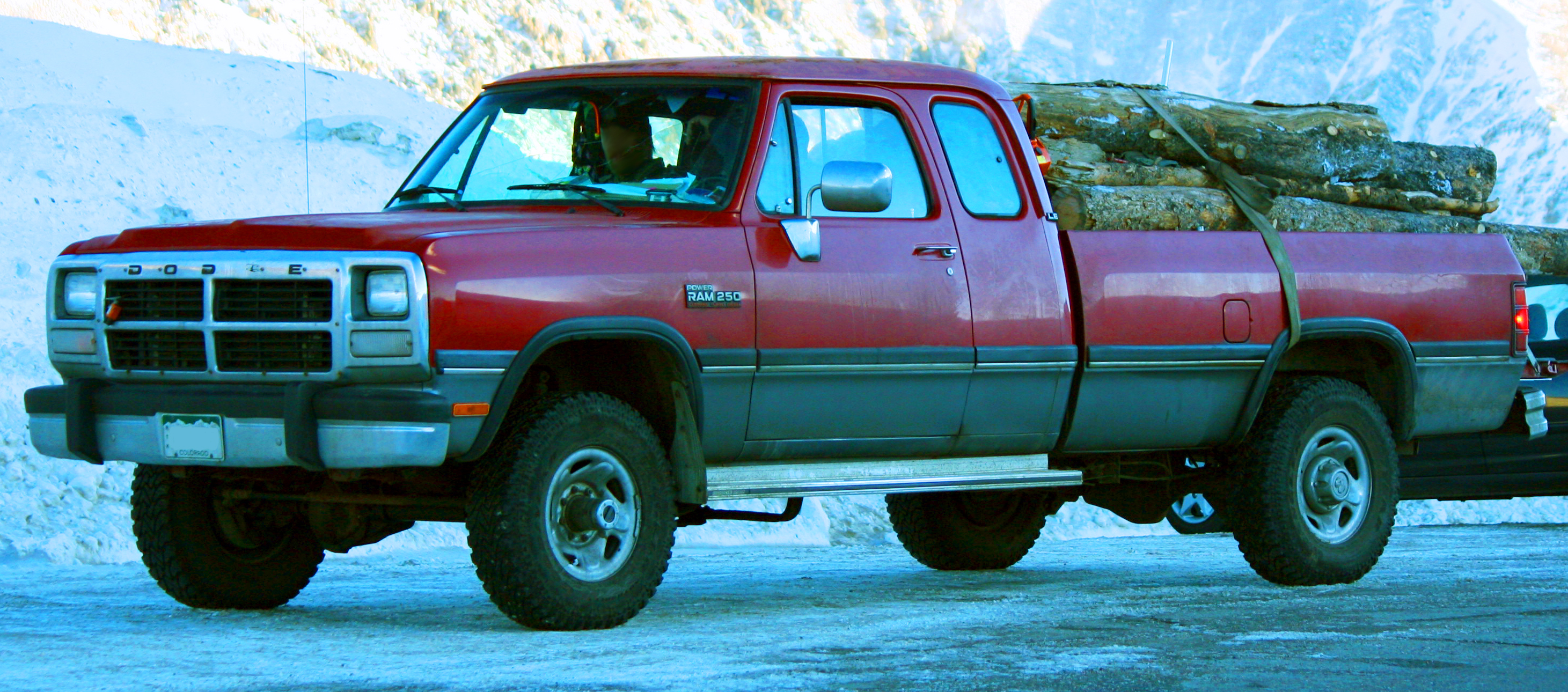 1991-1994 Dodge Ram 250 Club Cab LE, fitted with the Cummins turbodiesel engine. Seen at the Loveland Pass and still working hard, at circa twenty years of age.